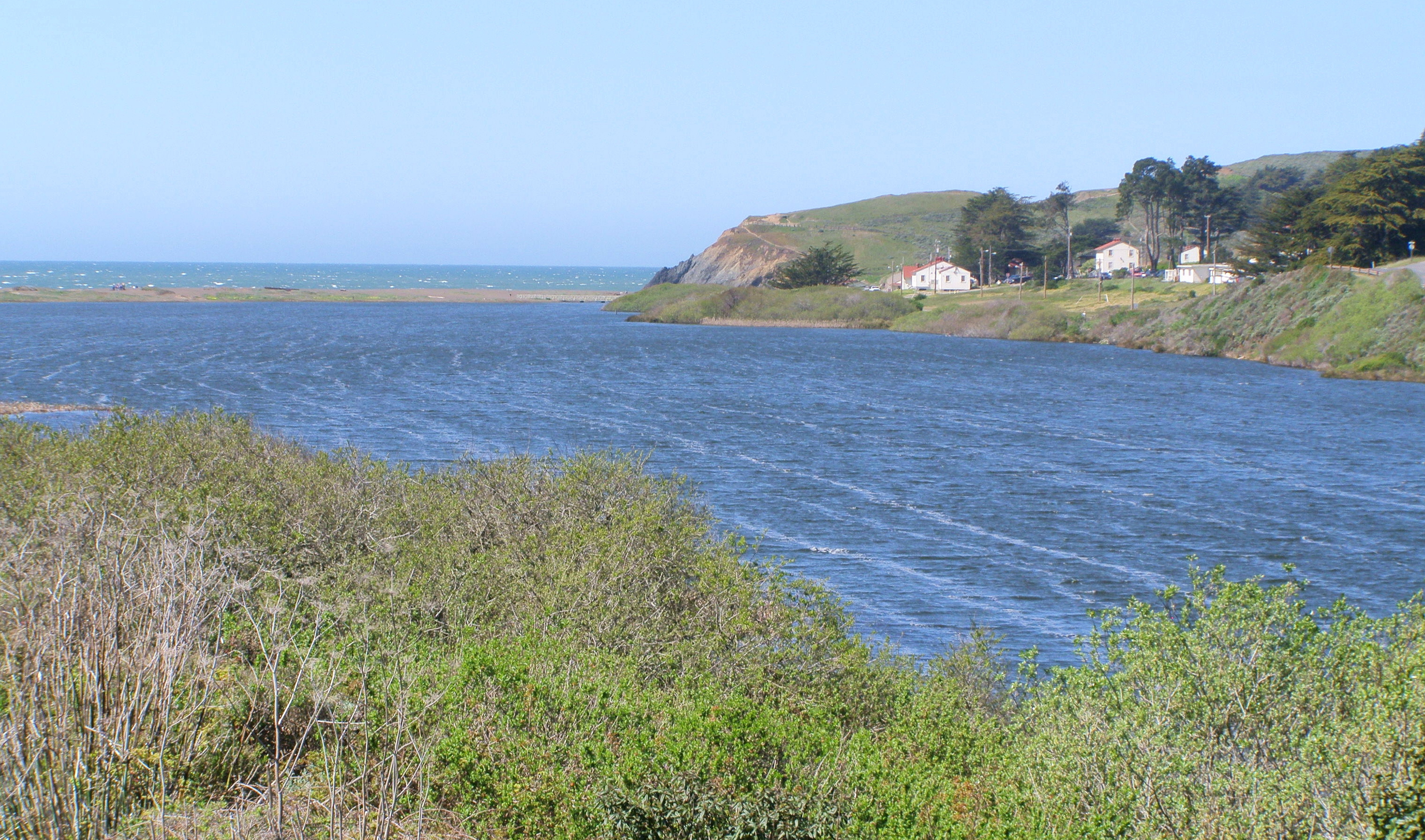 Rodeo Lagoon viewed from the trail on the southeast side of the lagoon. Streaks on the water are evidence of Langmuir circulation, a product of the prevailing windy conditions.